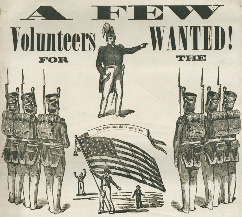 Recruiting poster illustration depicting "[x] soldiers, in groups of three, standing at attention (left or right facing)."